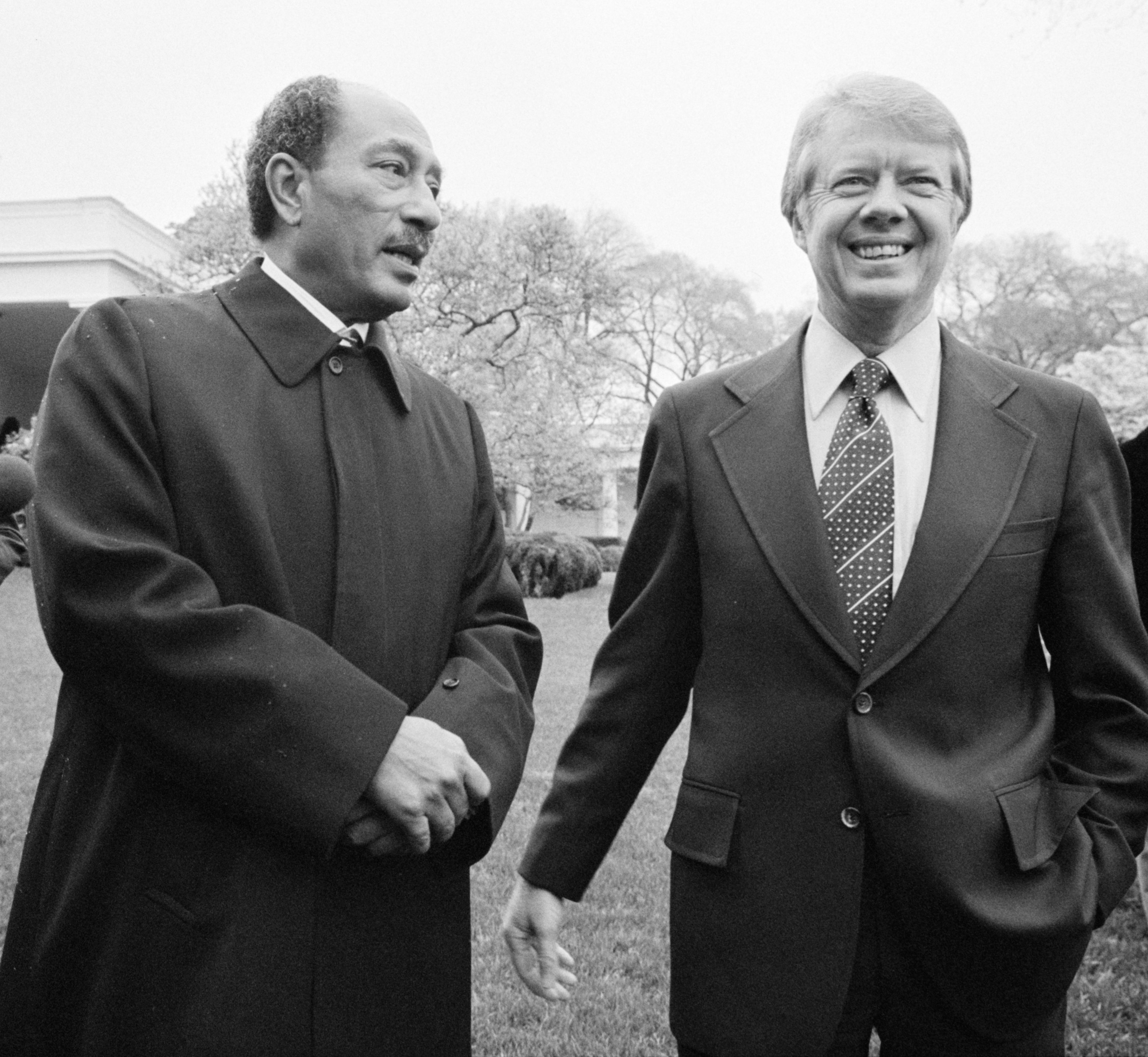 Library of Congress description: "President Jimmy Carter and Egyptian President Anwar Sadat at the White House, Washington, D.C."